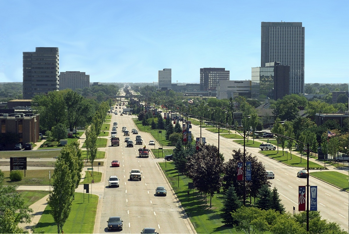 View of Big Beaver Road (16 Mile Road) looking east in Troy, Michigan, United States near the city's core